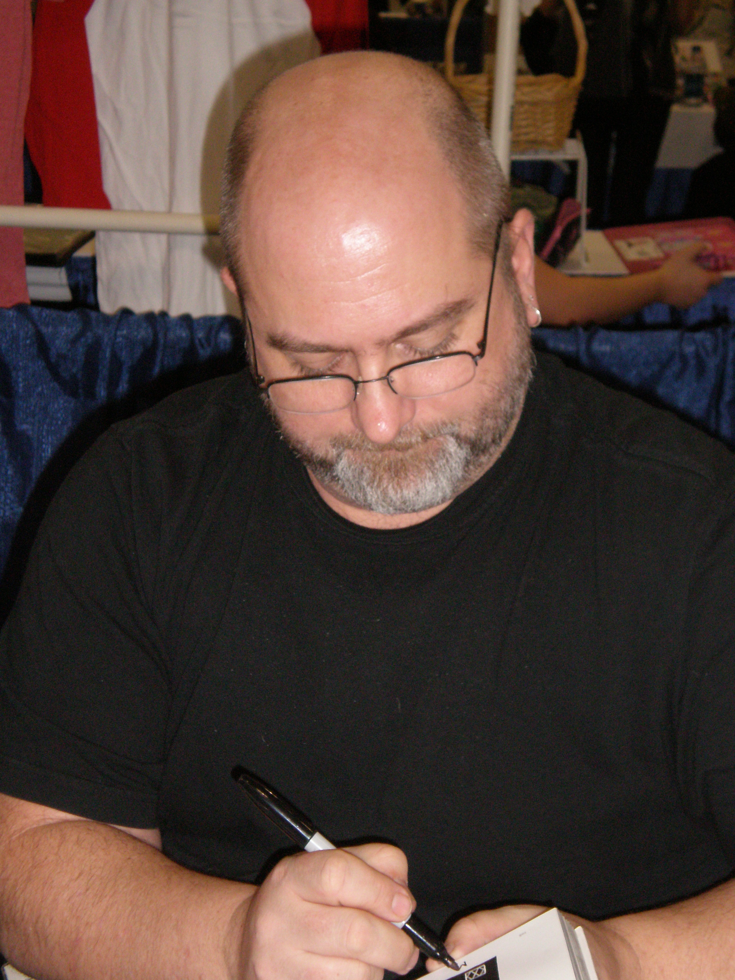 Matt Wagner at WonderCon 2009.